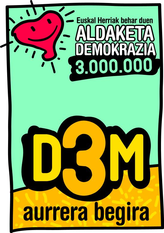 Poster of D3M basque left independentist platform.